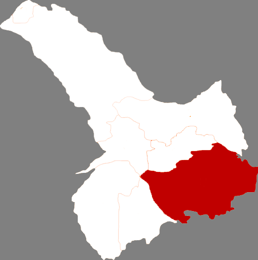 Locator map of Horqin Left Back Banner in Tongliao, Inner Mongolia, China